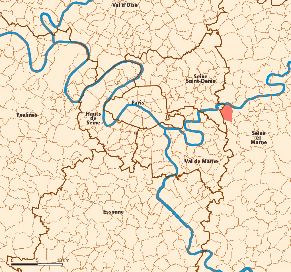 Created map myself.